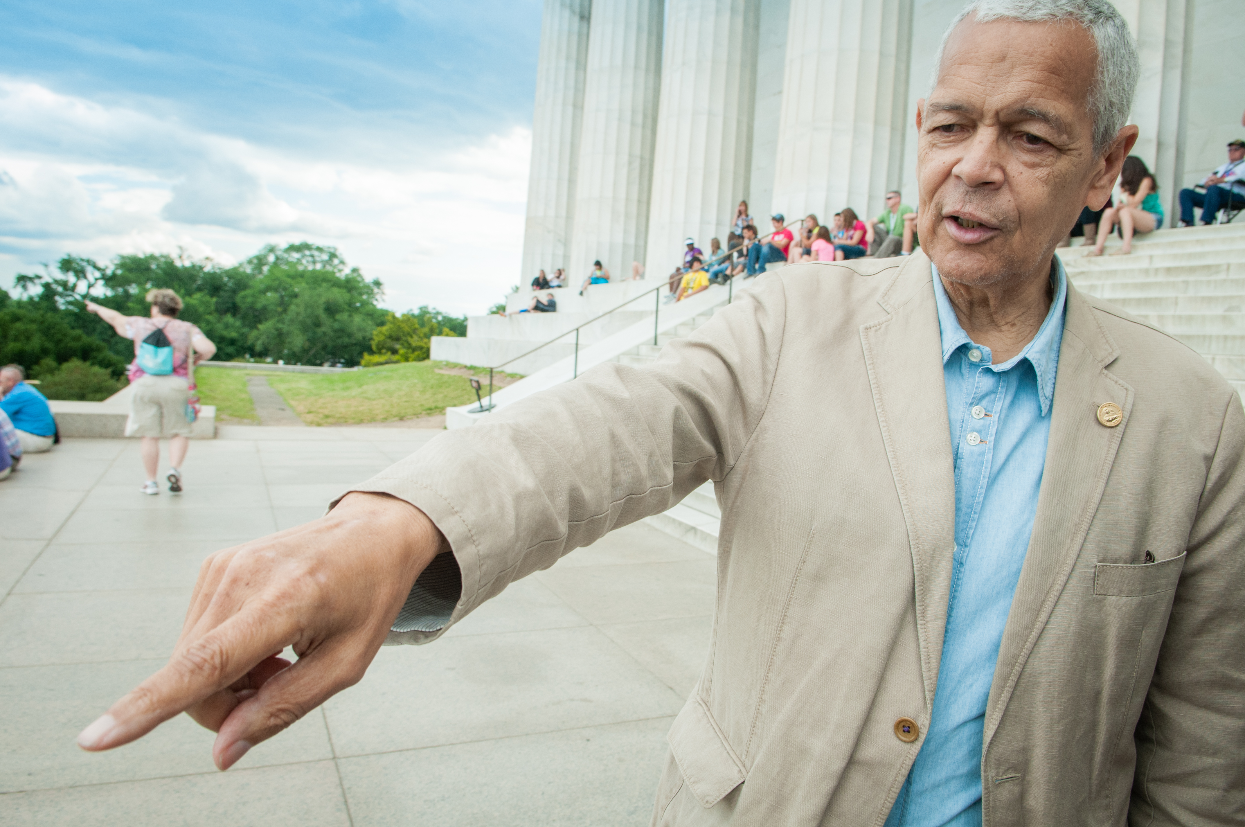 Julian Bond on location at the Lincoln Memorial during the filming of the documentary "Julian Bond: Reflections from the Frontlines of the Civil Rights Movement"